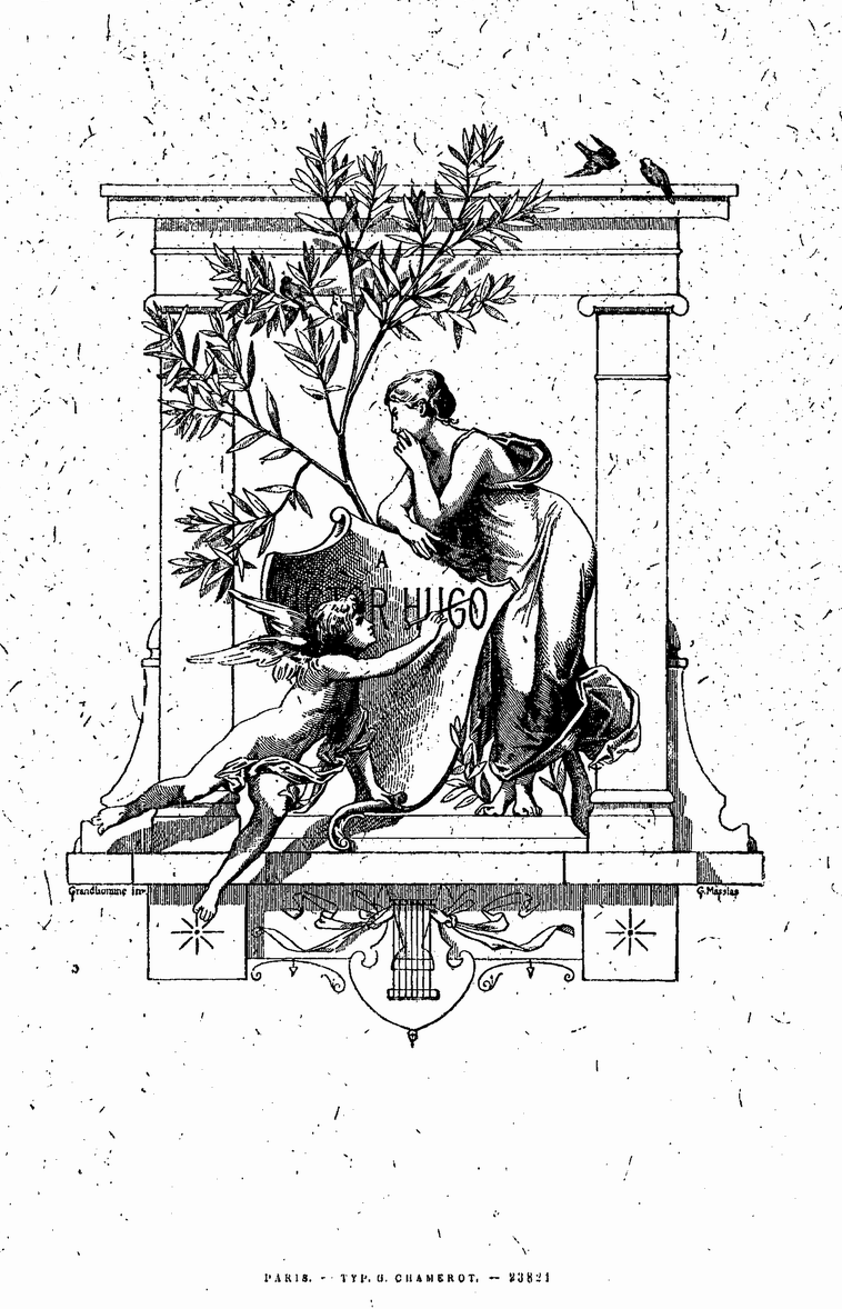 The illustration on a page at the end of Notre-Dame de Paris (The Hunchback of Notre Dame) by Victor Hugo, from the 1889 edition.